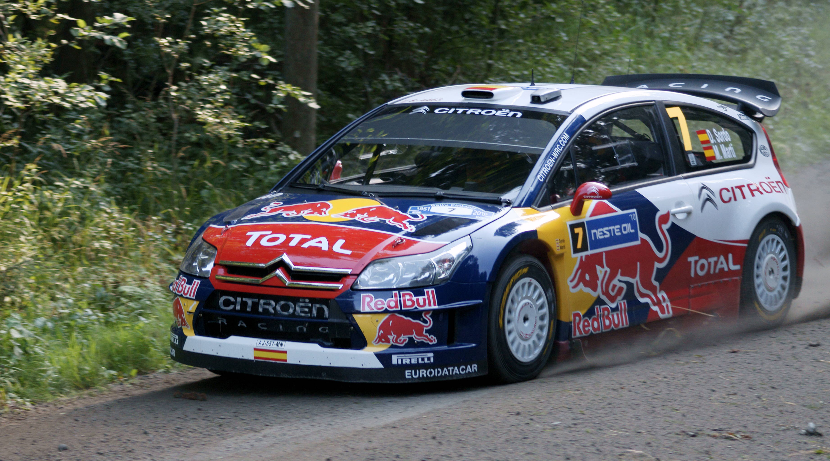 Dani Sordo driving at Rannakylä shakedown in Muurame.